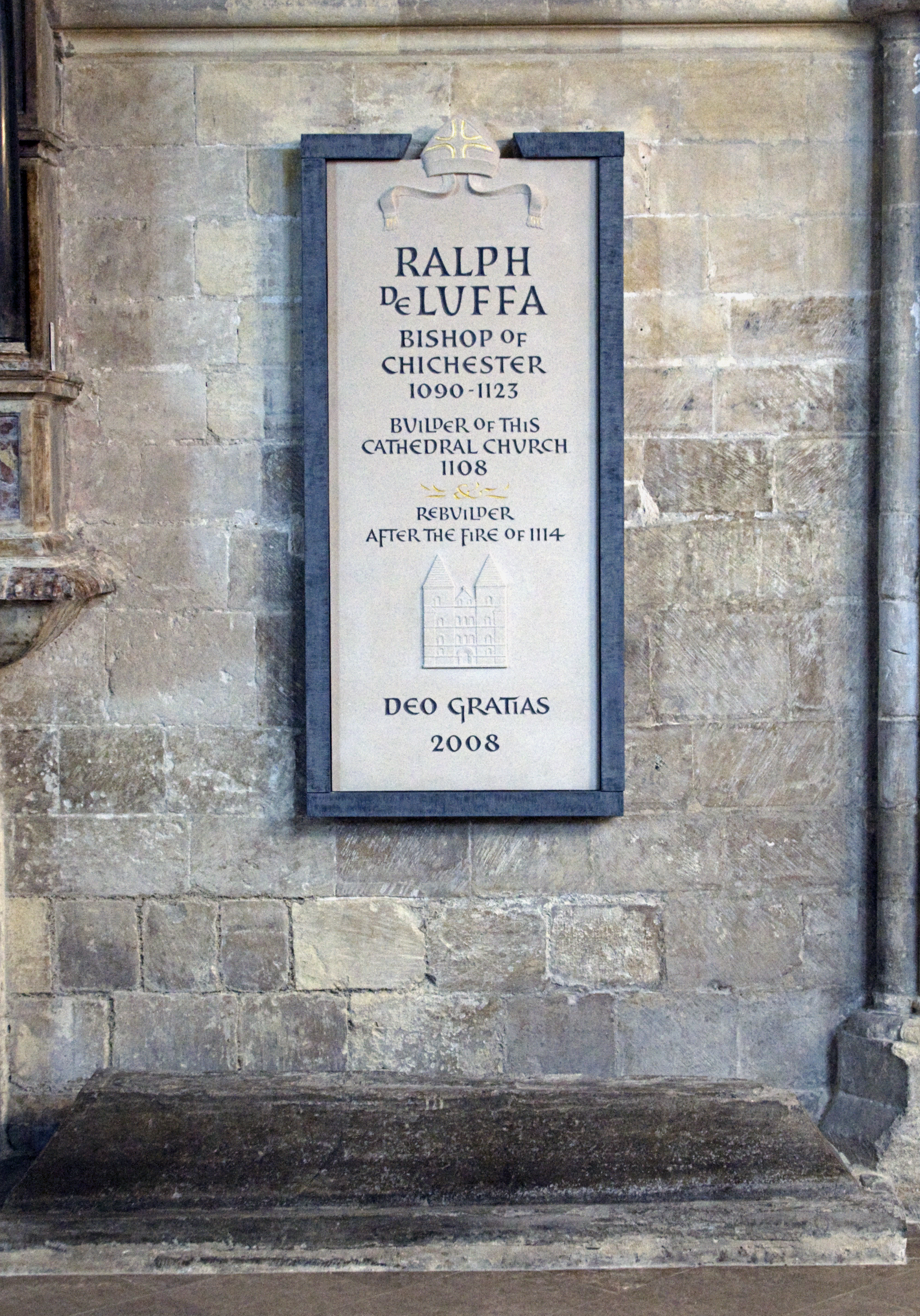 Sign memorializing Ralph de Luffa, Bishop of Chichester, in Chichester Cathedral